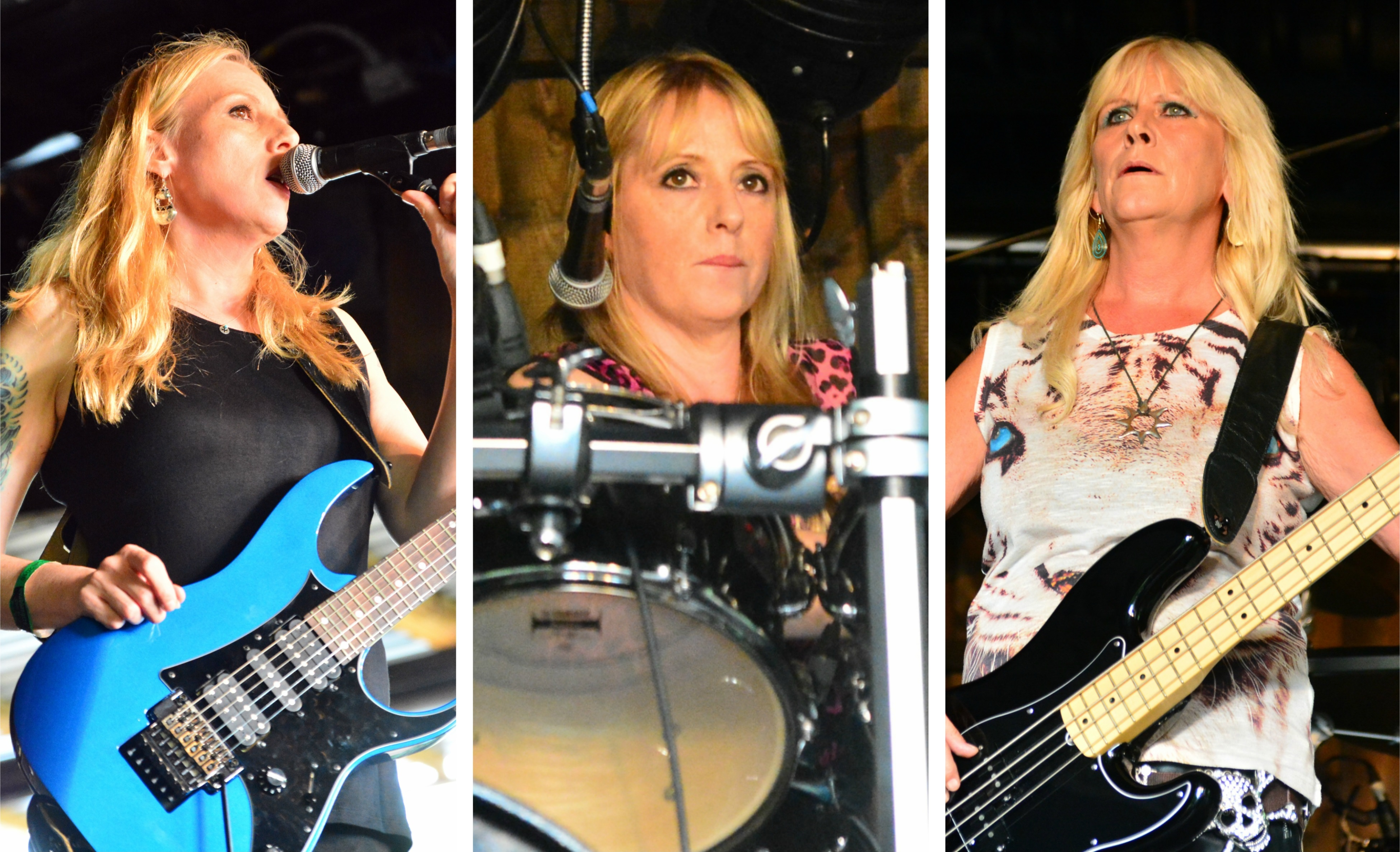 Clockwise, from top left: Jody Turner, Julie Turner, and Tracey Lamb of Rock Goddess